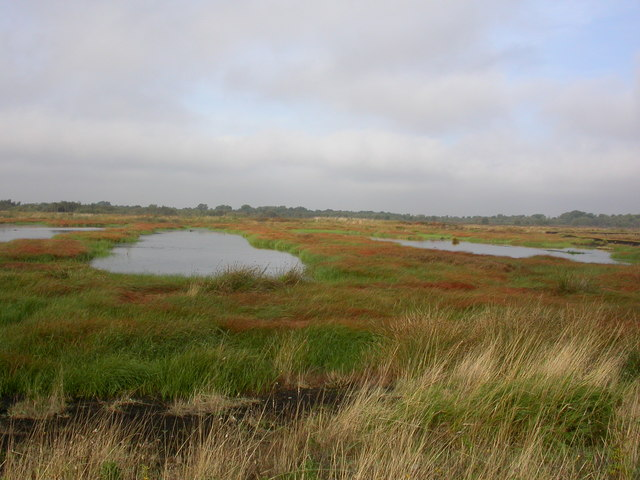 Re-flooded peat workings Re-flooded peat workings on Thorne Moors part of the Humberhead levels NNR